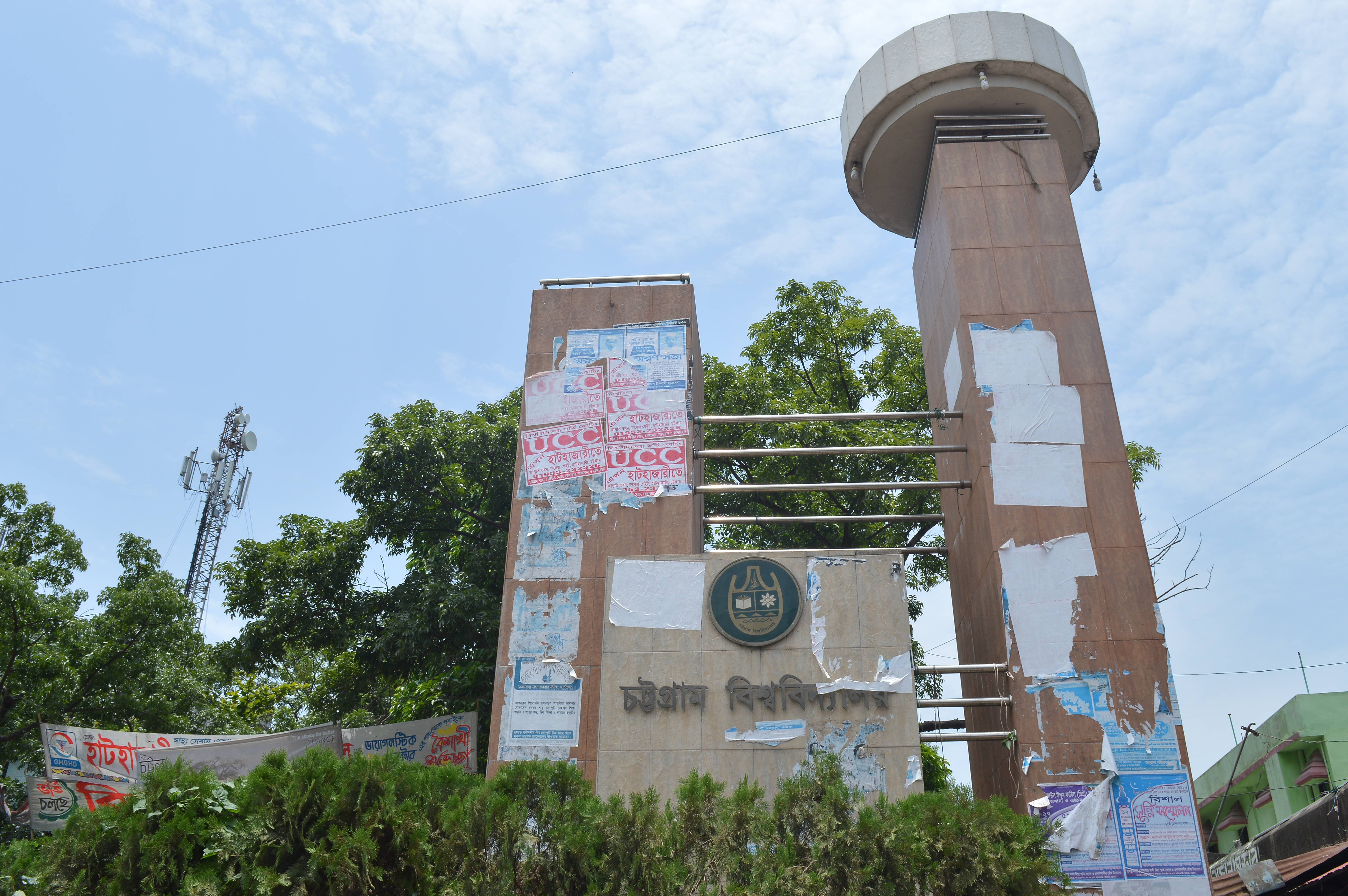 University of Chittagong portal